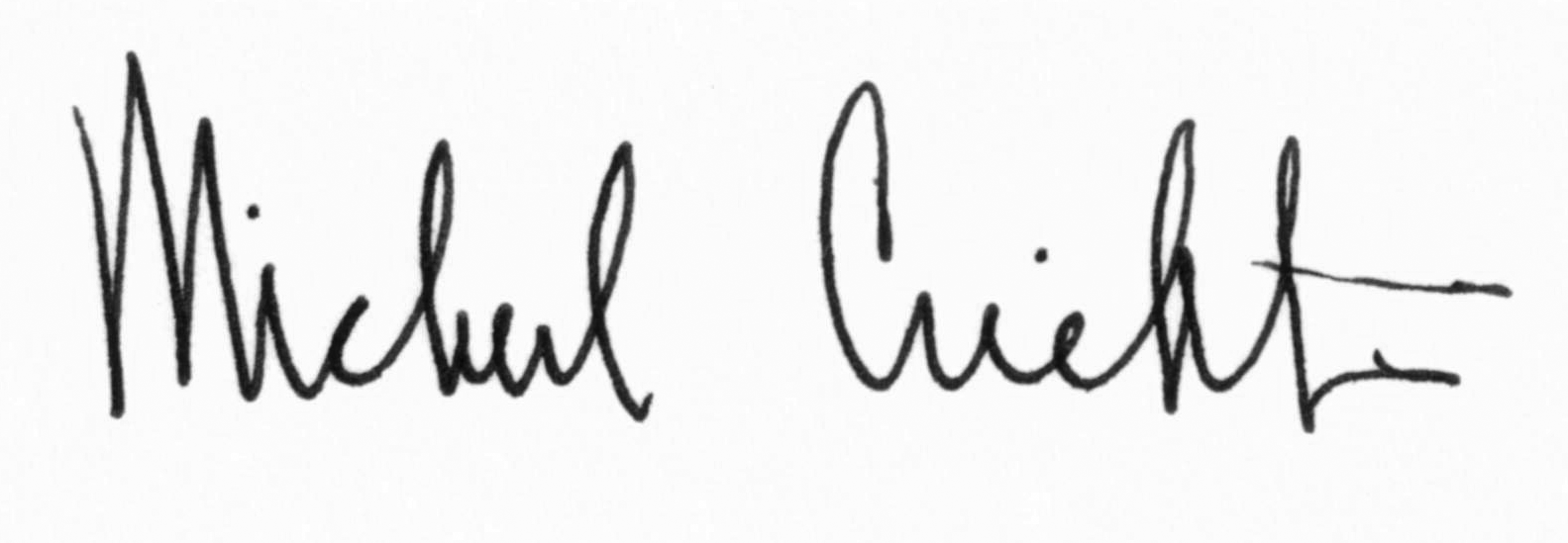 Michael Crichton signature (circa 1993).